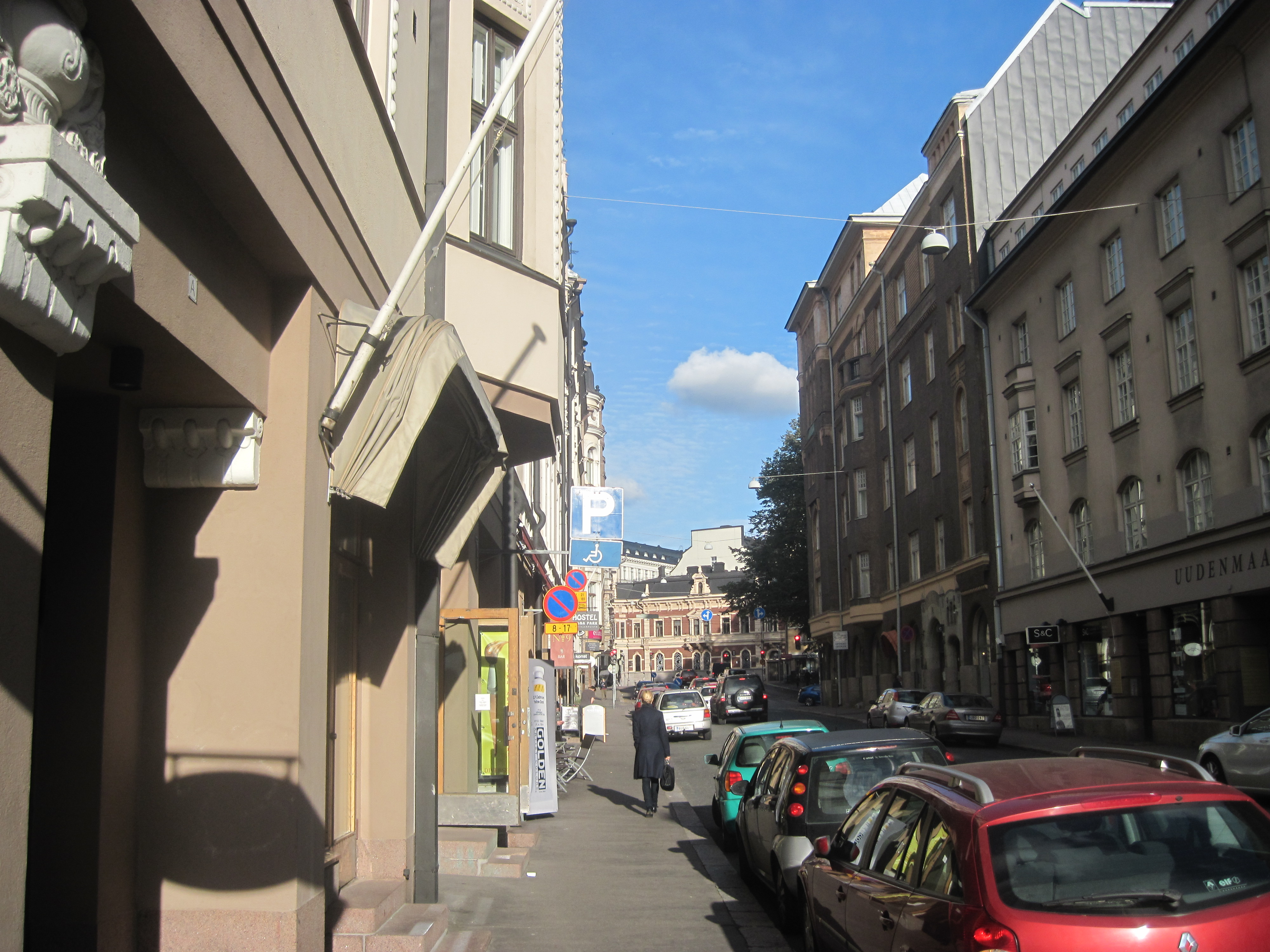 Uudenmaankatu in Helsinki, as seen from West